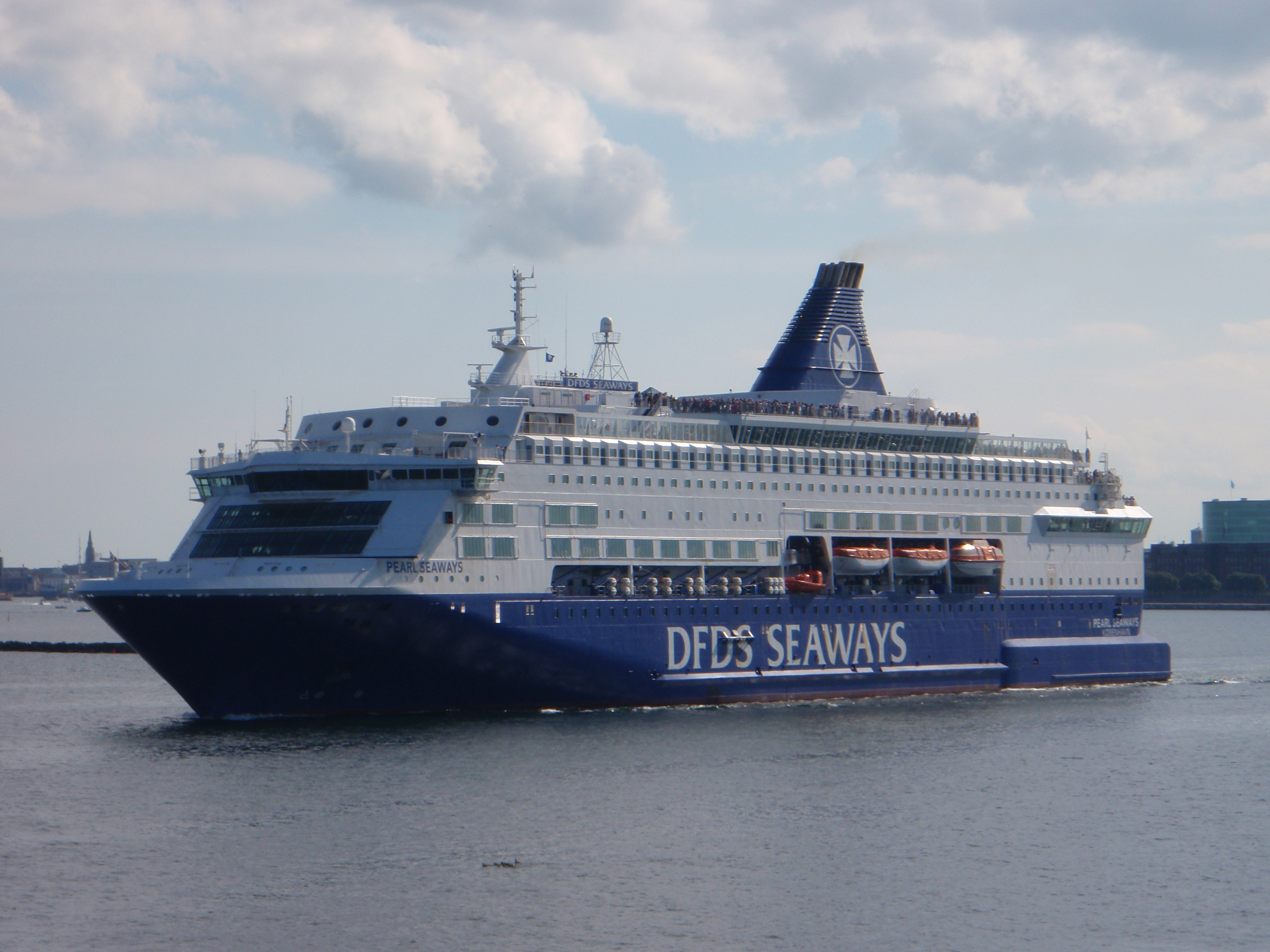 Pearl Seaways departing from Copenhagen. Saturday, June 7, 2014. Oceankaj.